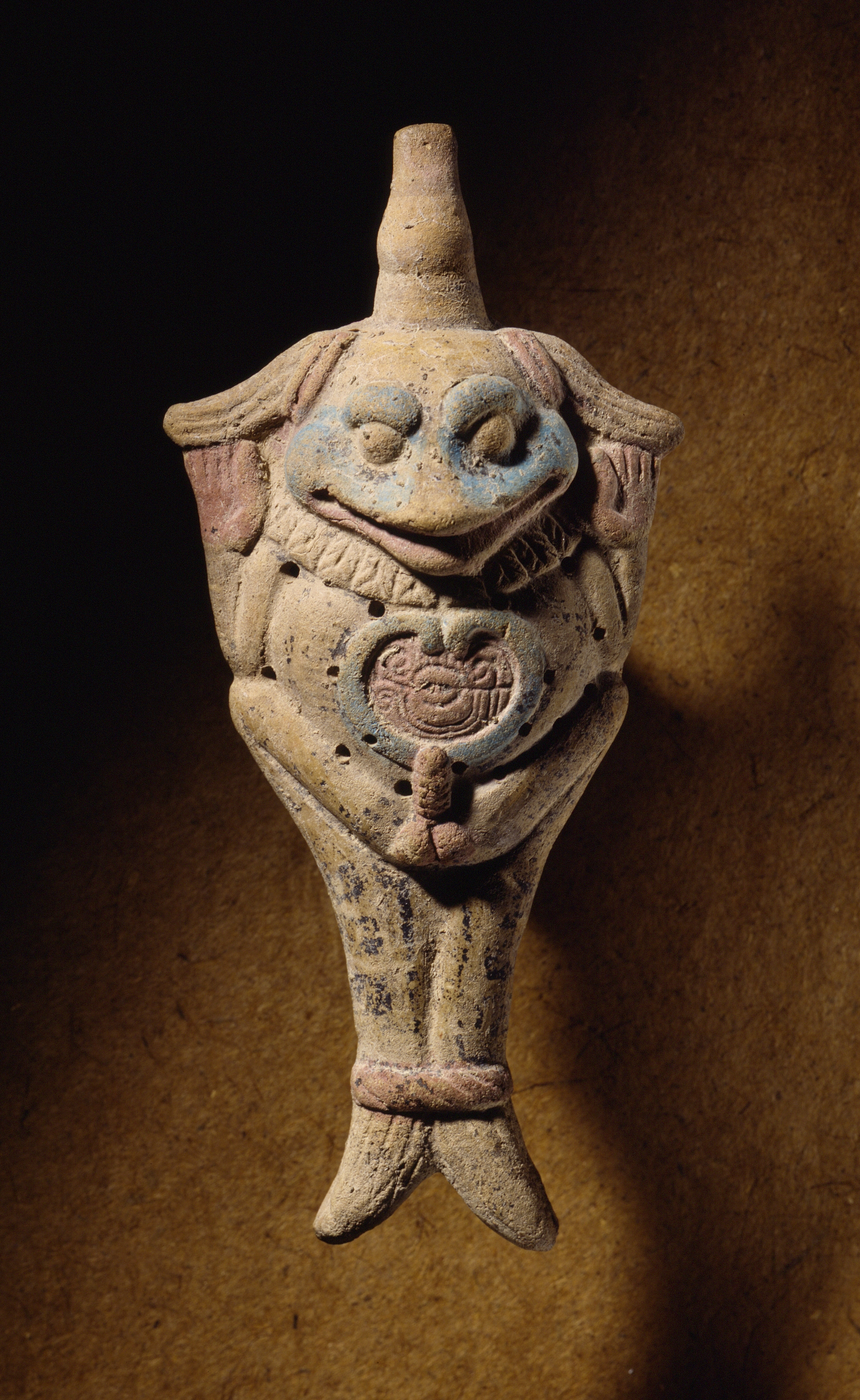 Toad Ocarina, Sculpture from Mexico, Southern Veracruz, Nopiloa